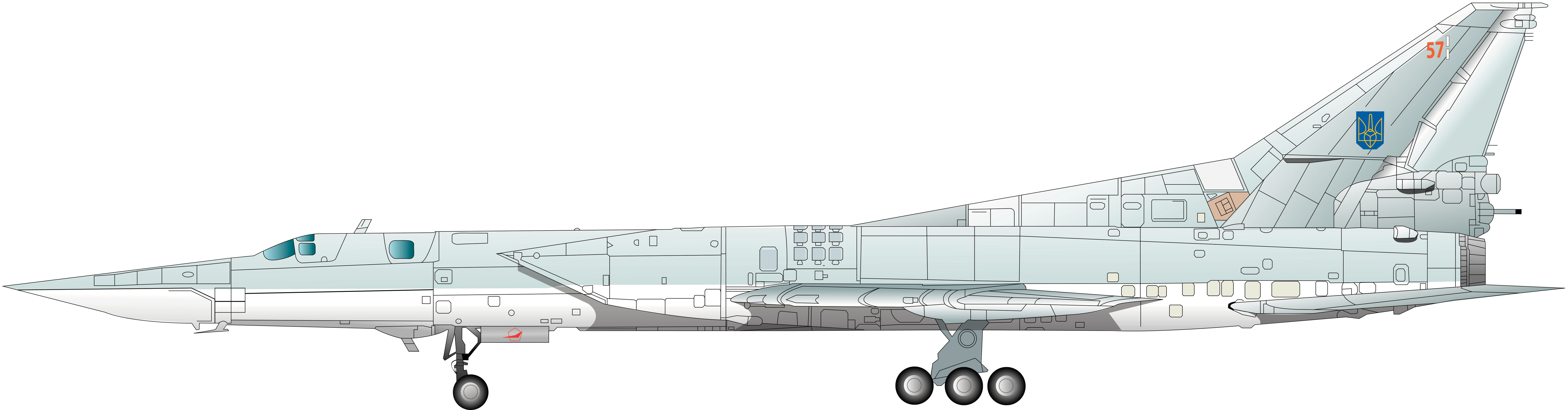 Ukraine Air Force Tu-22M3 57 RED.